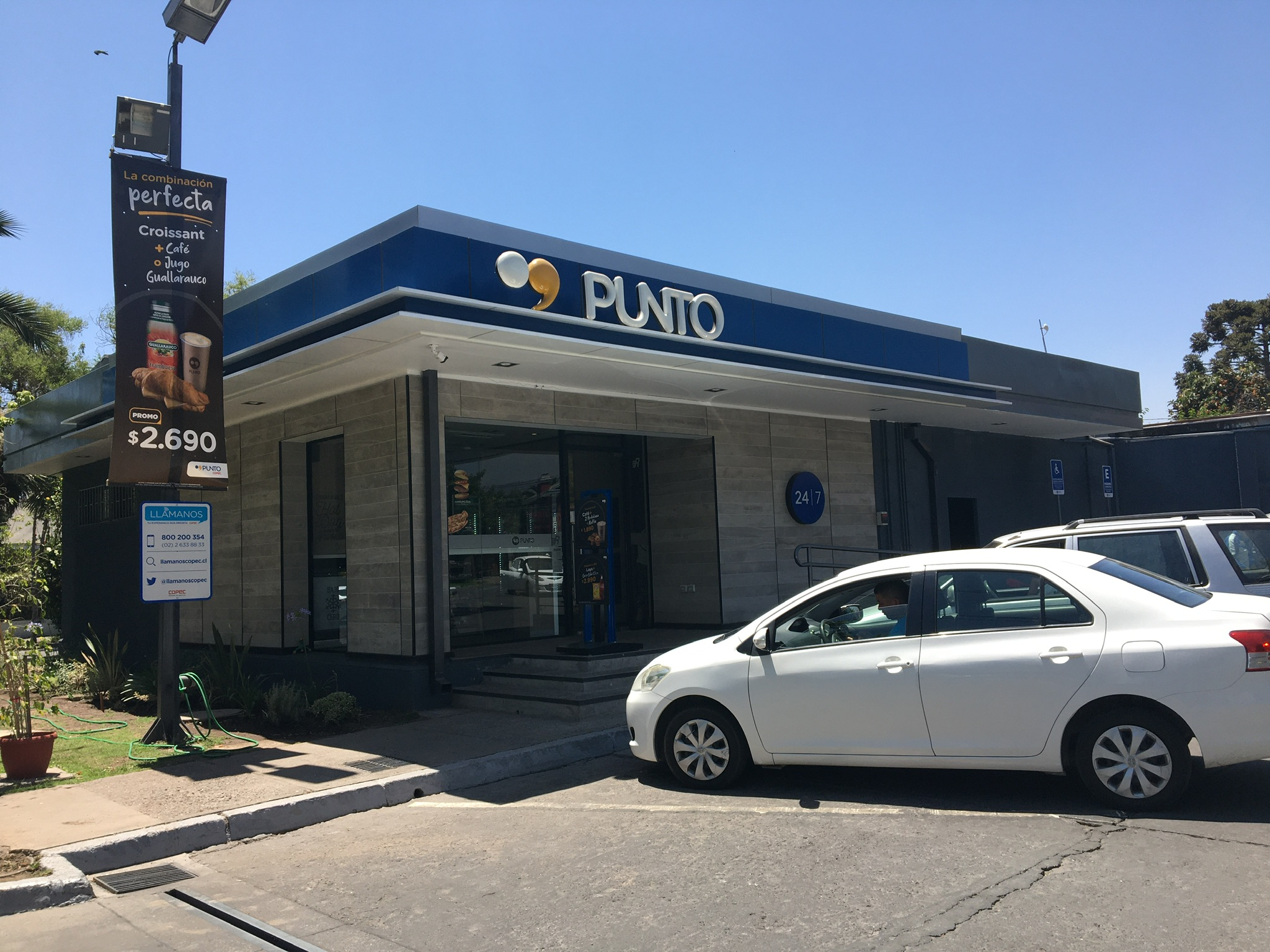 punto cópec ñuñoa